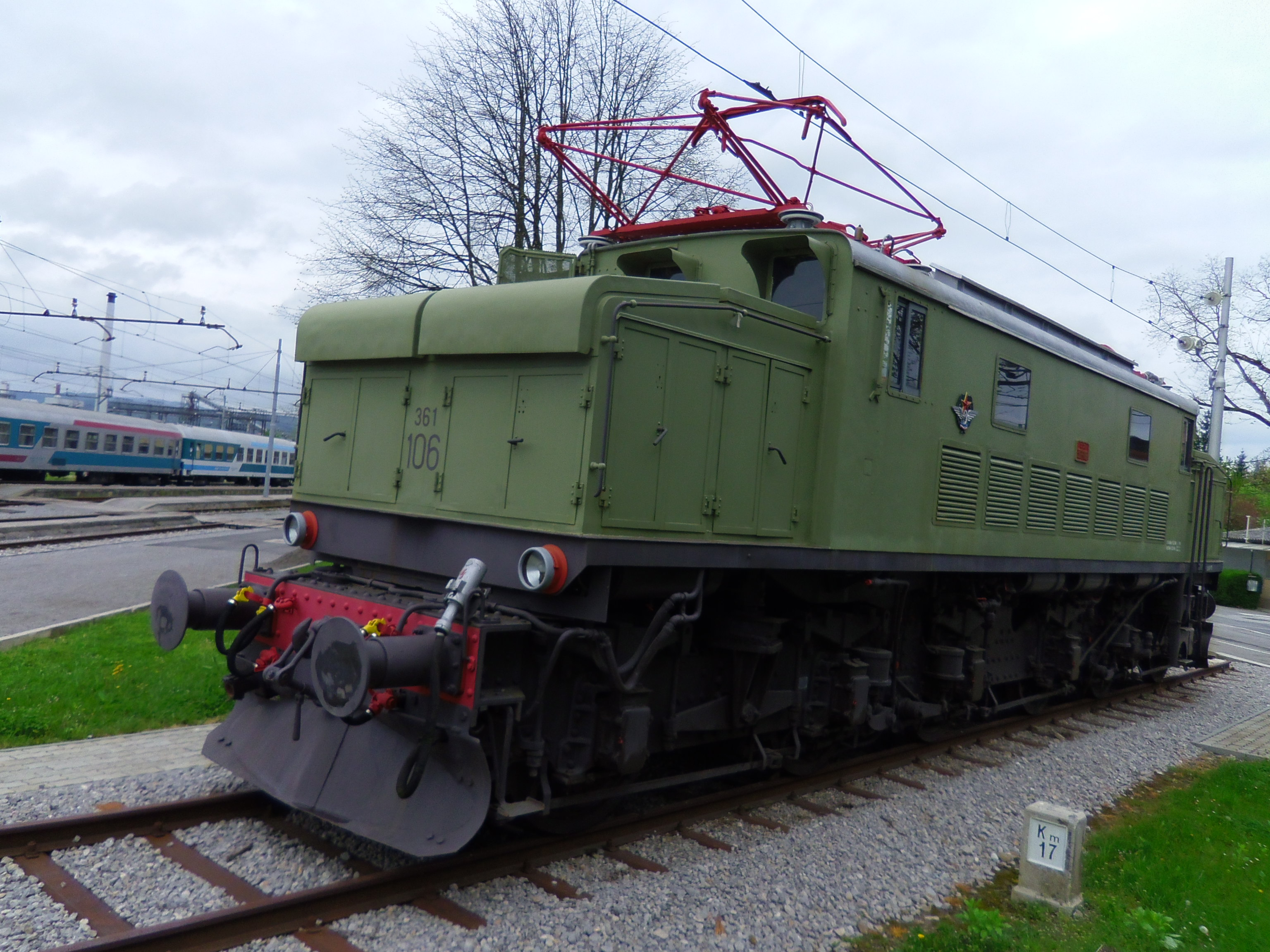 Lokomotiva 361-106 displayed in Ilirska Bistrica